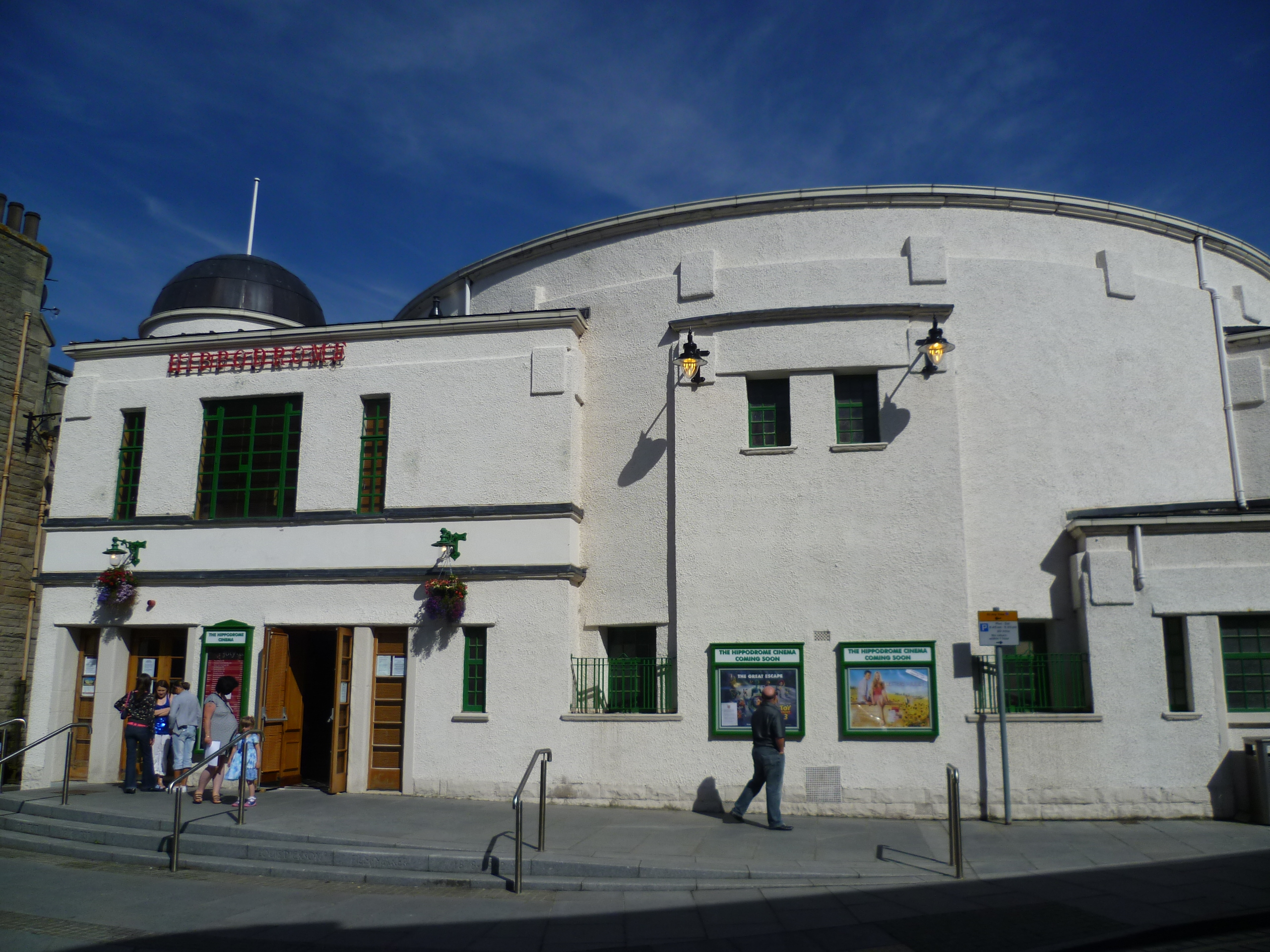 A picture palace built in 1912 in a style anticipating art deco cinema architecture, recently restored and revitalised.